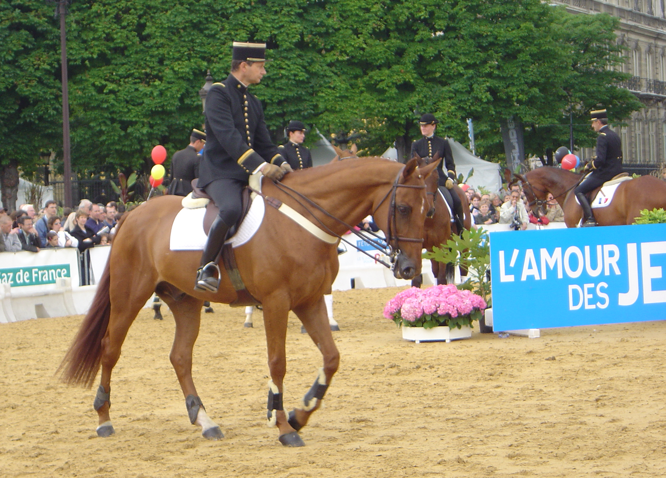 Riders of the Cadre Noir. Party promoting the candidacy of Paris to the 2012 Olympic Games., Avenue des Champs-Élysées, 5 June 2005